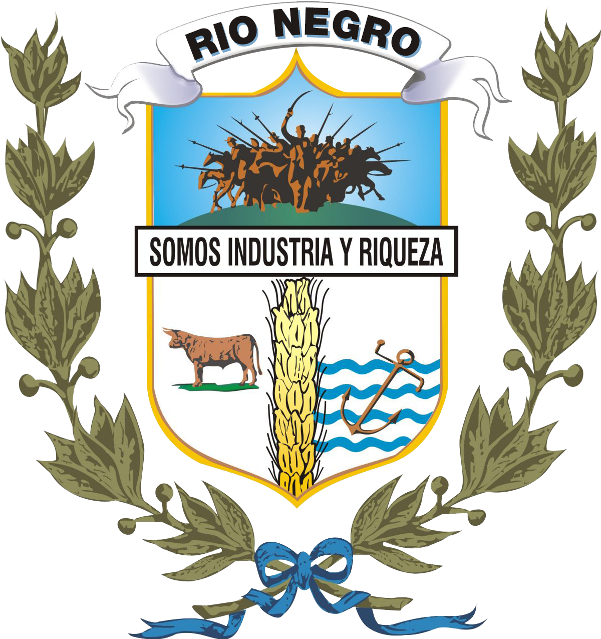 Coat of Arms of the Department of Río Negro, Uruguay. Drawn by: Jordevi